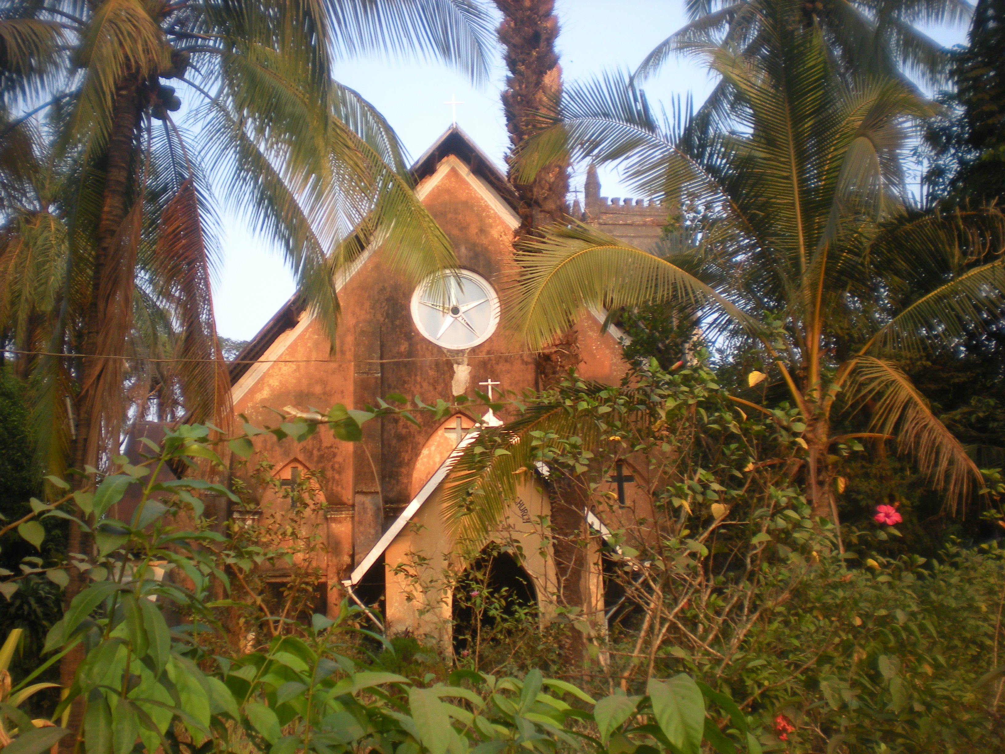 St. Augustine Church at Kyaikhami road